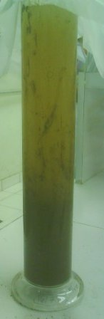 Initial condition of a Winogradsky column